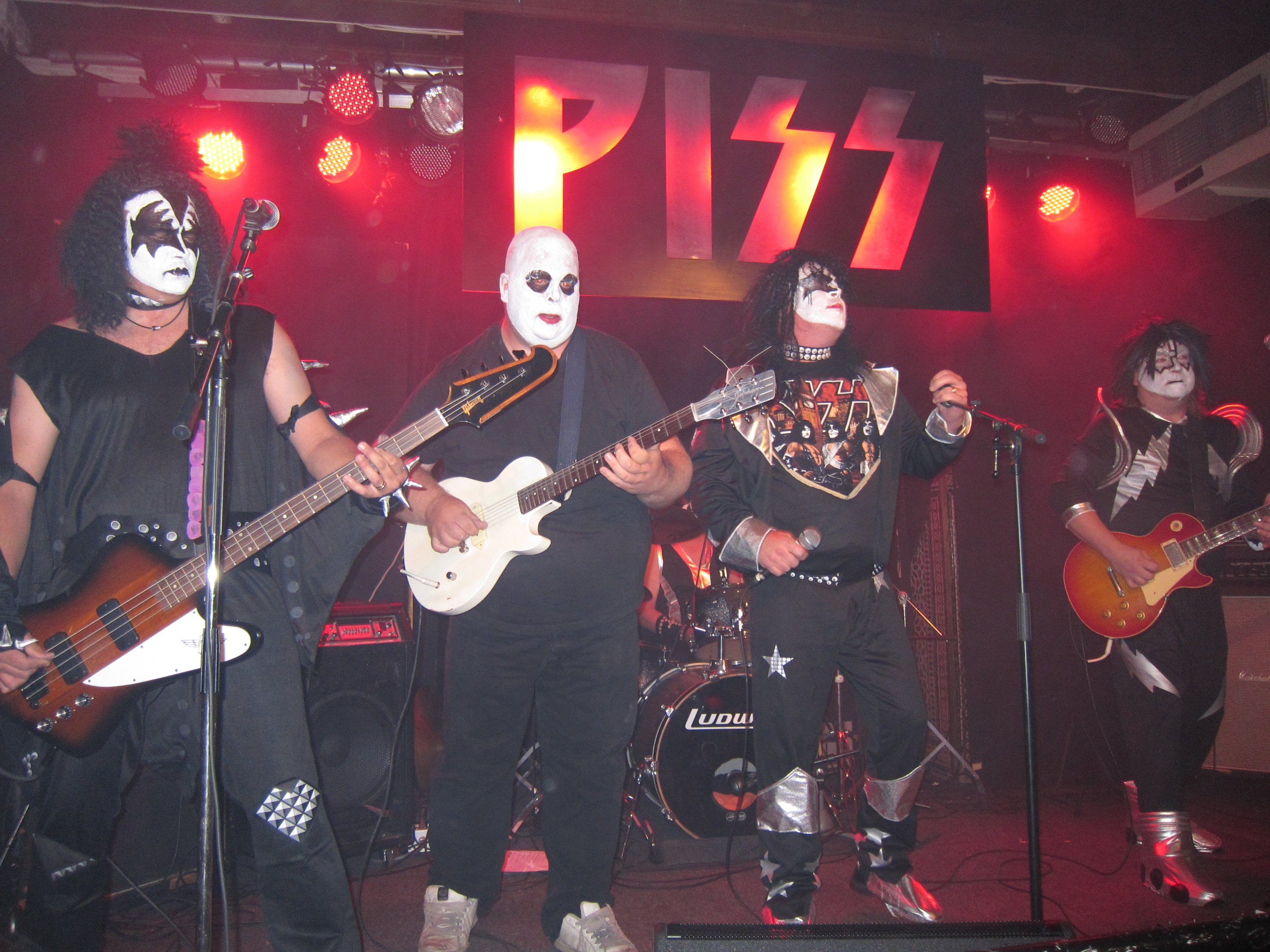 Cover band "Piss"